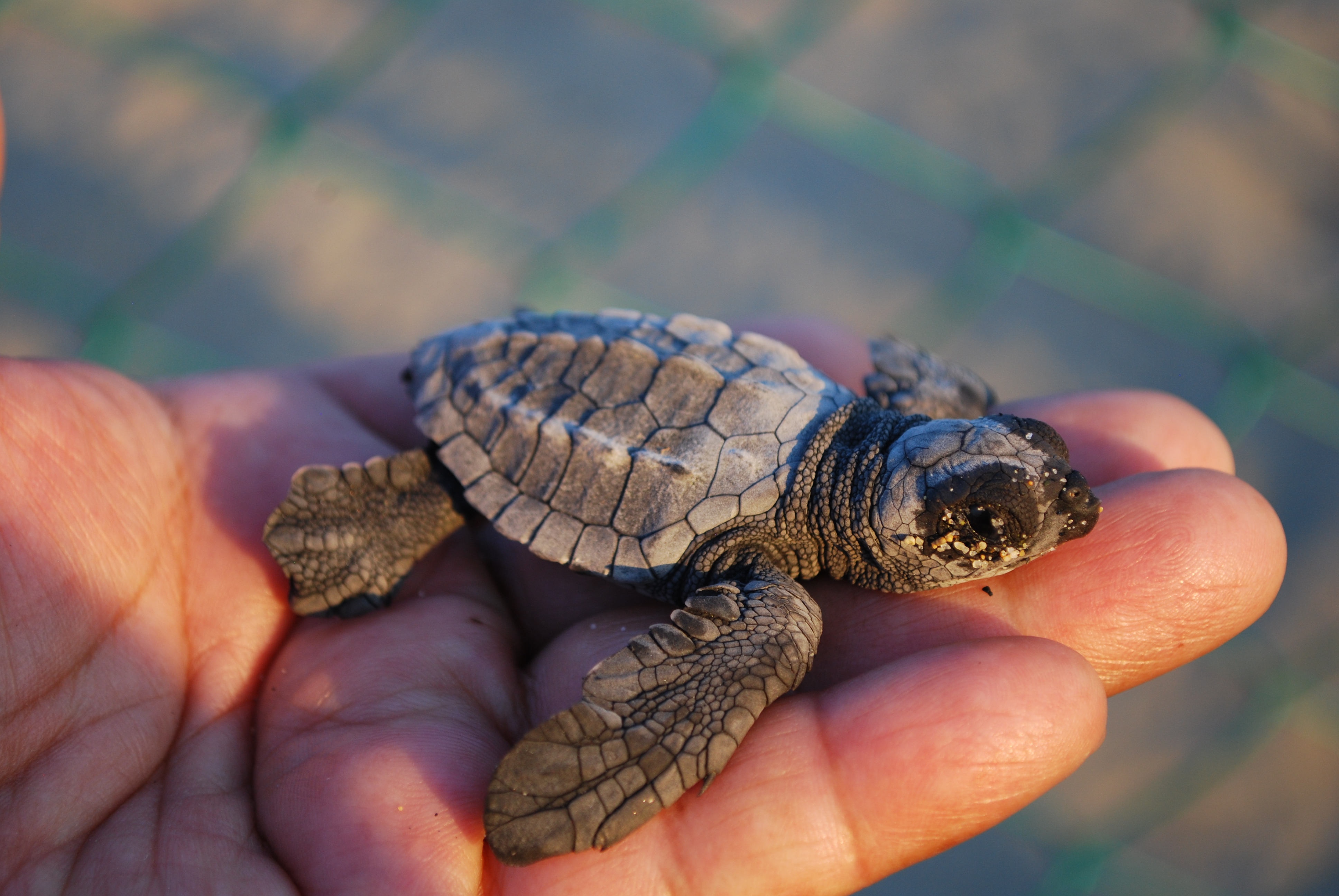 Baby loggerhead turtle just before release at Tlalcoyunque, Guerrero, Mexico